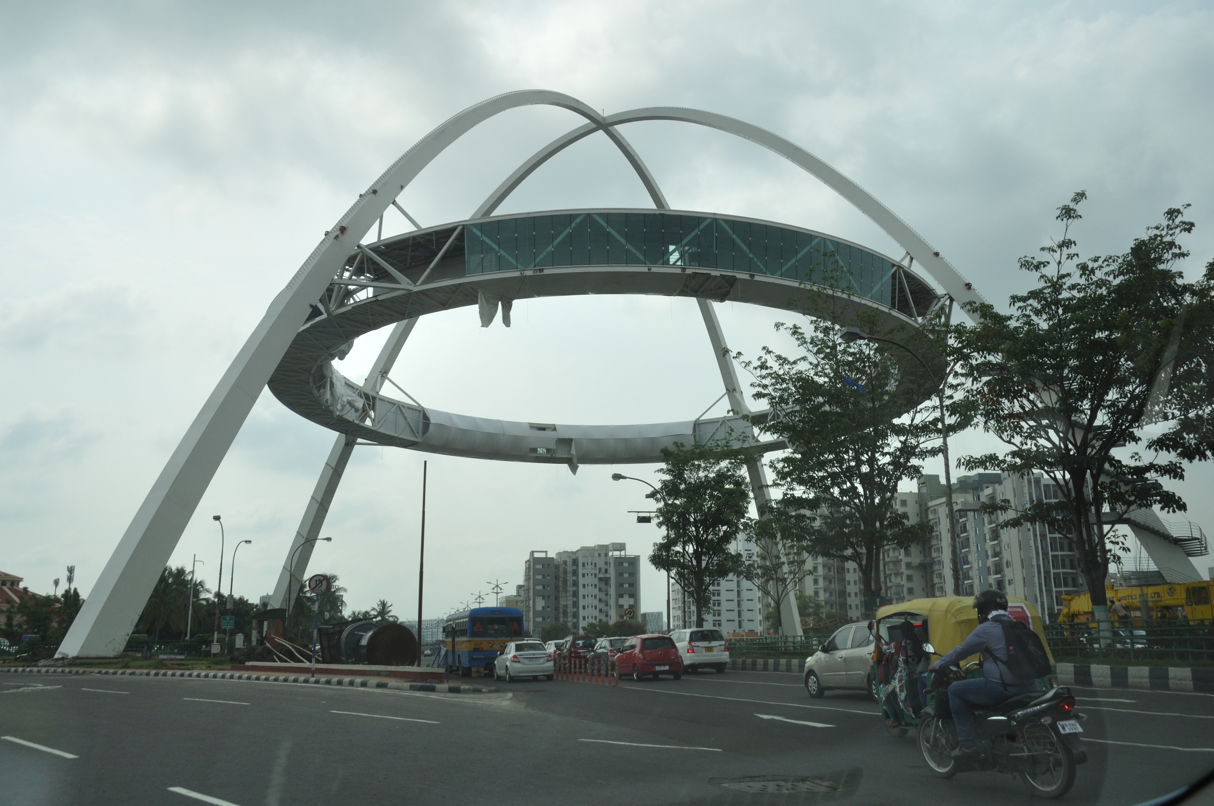 Photographed in greater Kolkata.